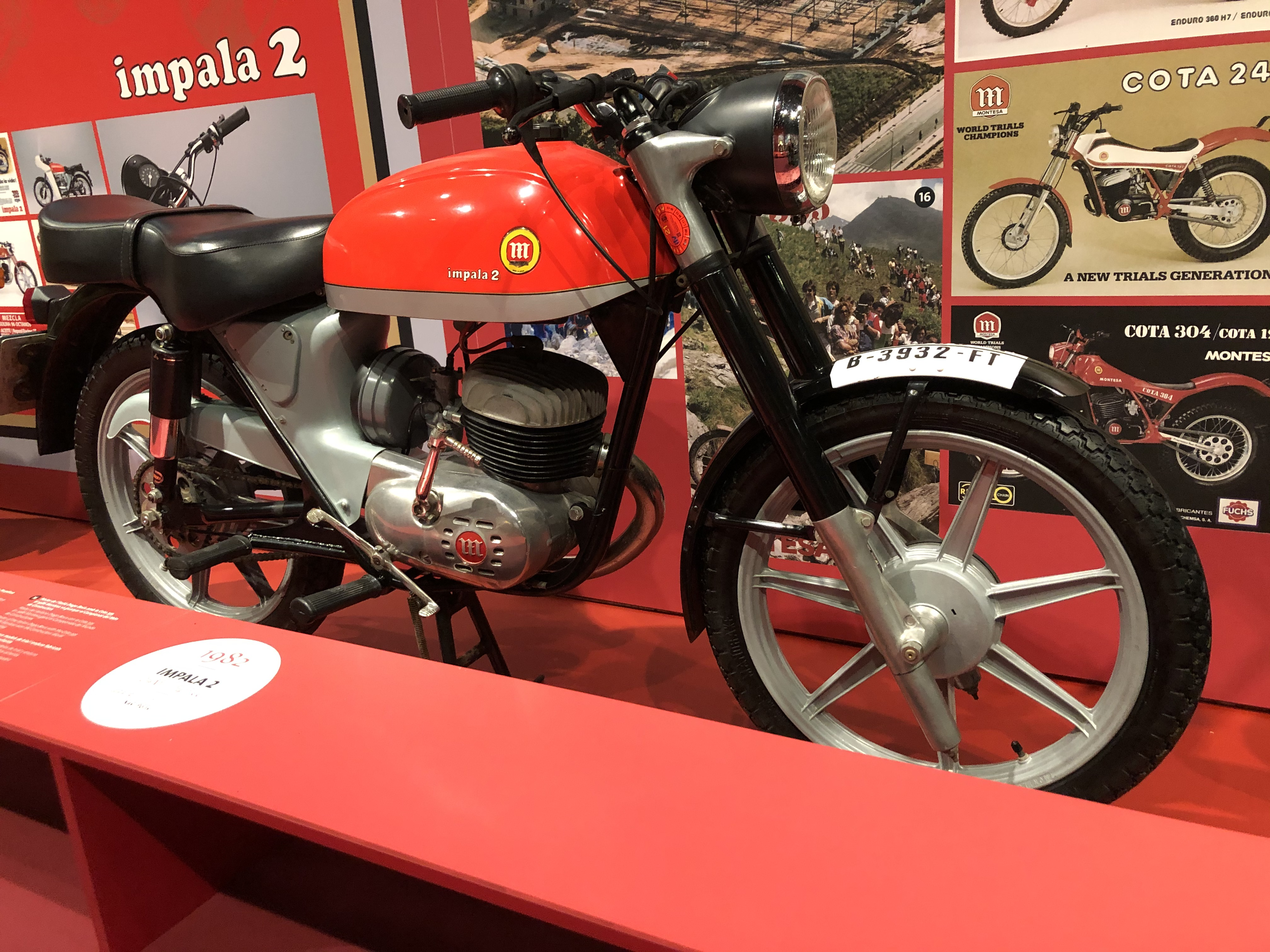 Montesa Impala 2 (1982), Mod. 04M, 174,7 cc